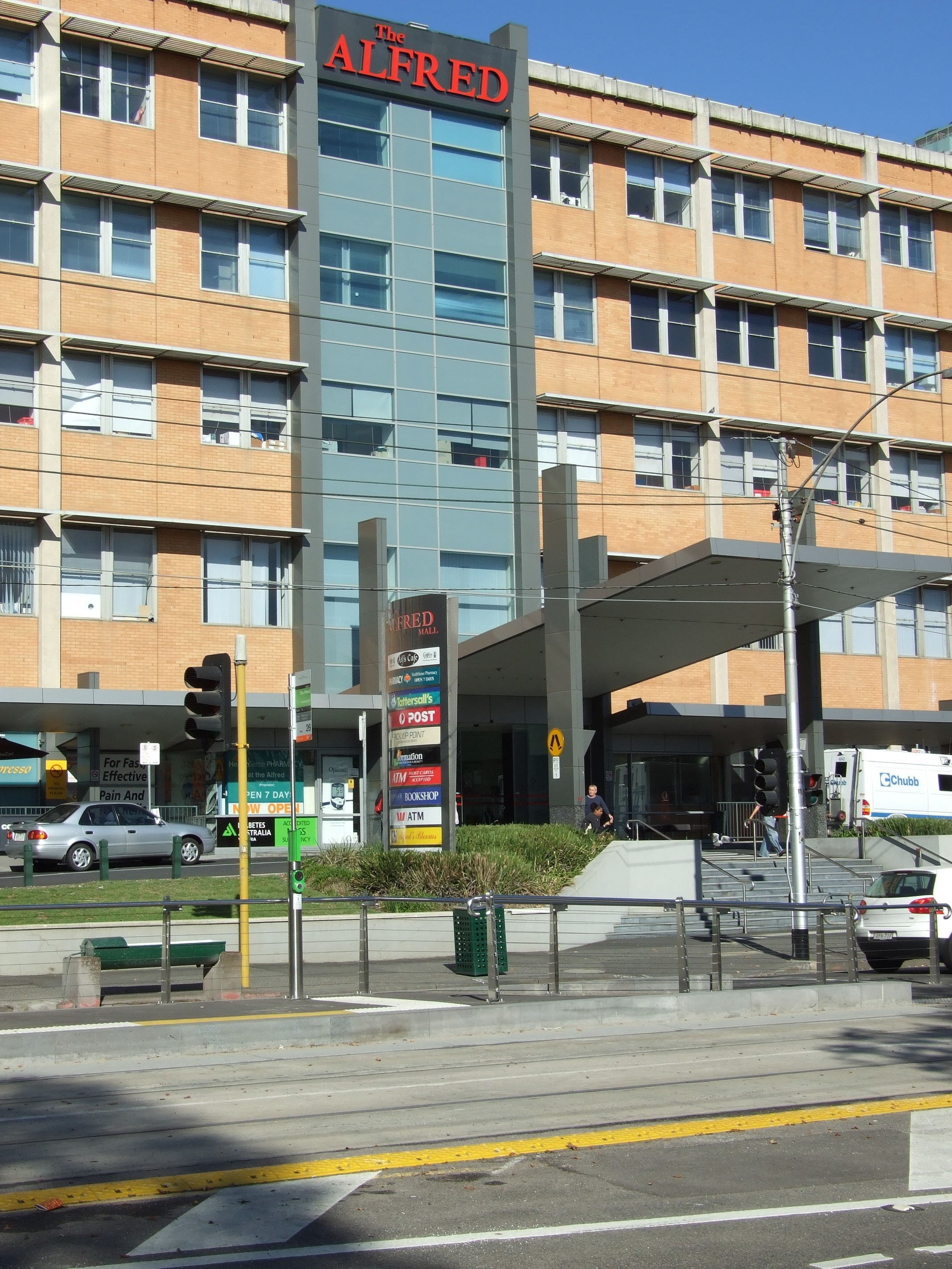 The Alfred Hospital, Commercial Road, Melbourne, Australia